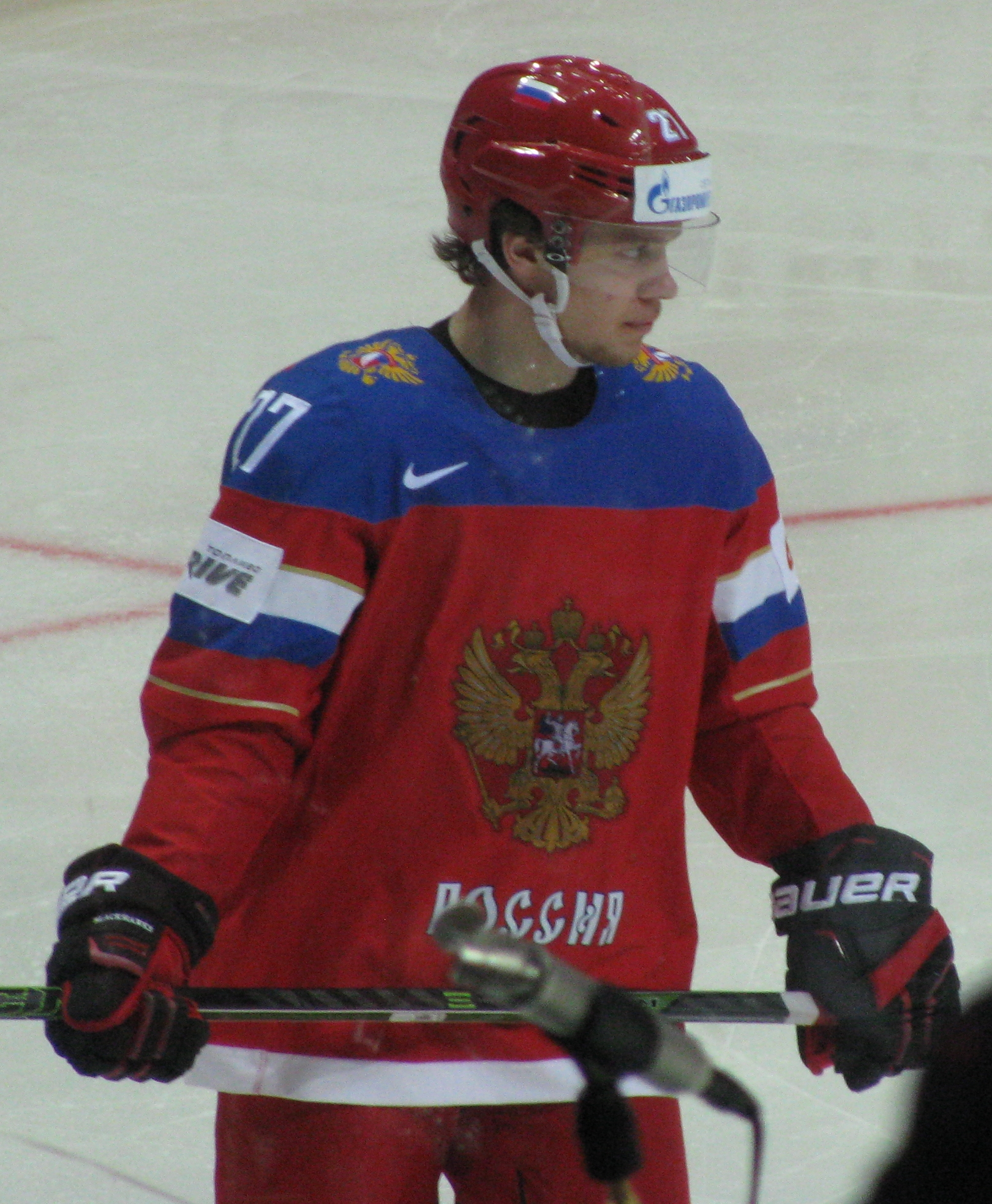 Artemi Panarin as a player of Russia national ice hockey team